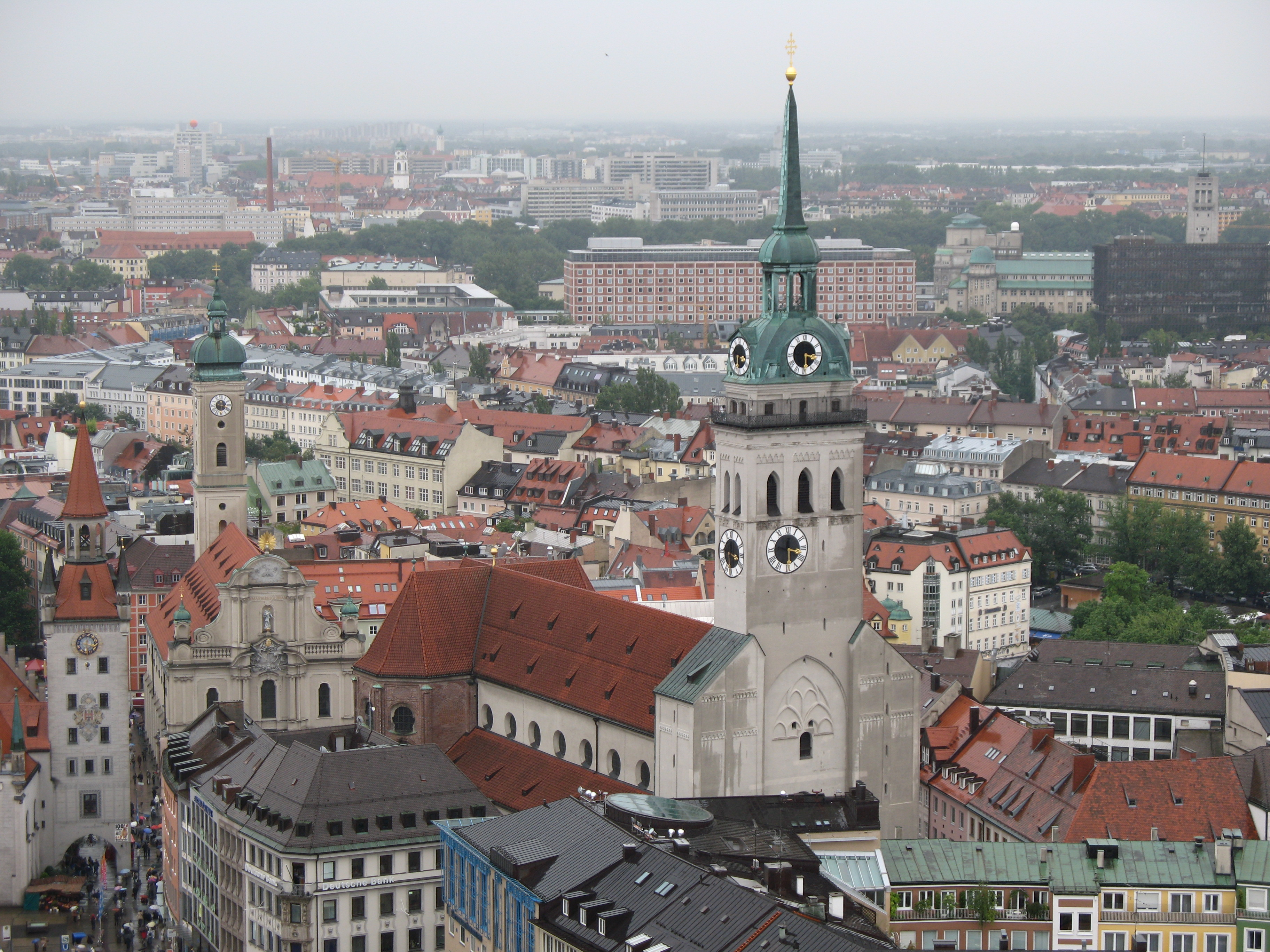 St. Peter' s Church (right) and Church of the Holy Spirit (left) viewed from Frauenkirche, Munich, Germany